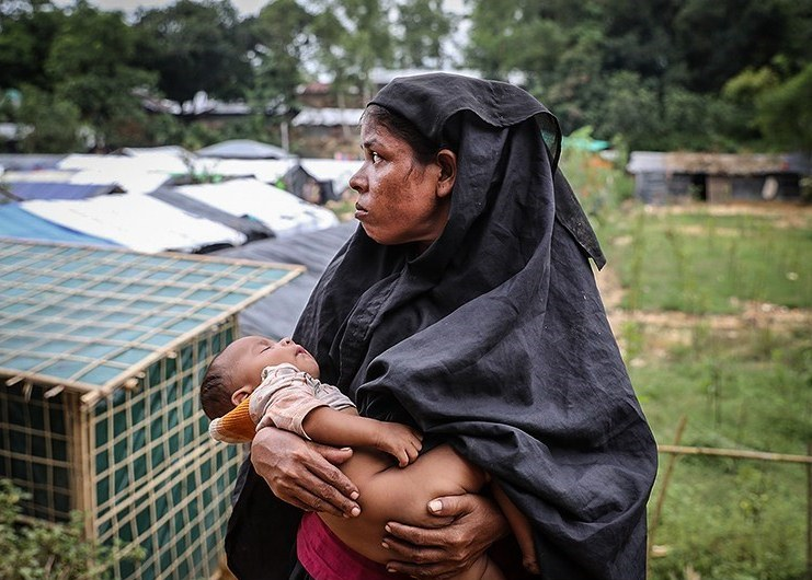 Rohingya displaced Muslims